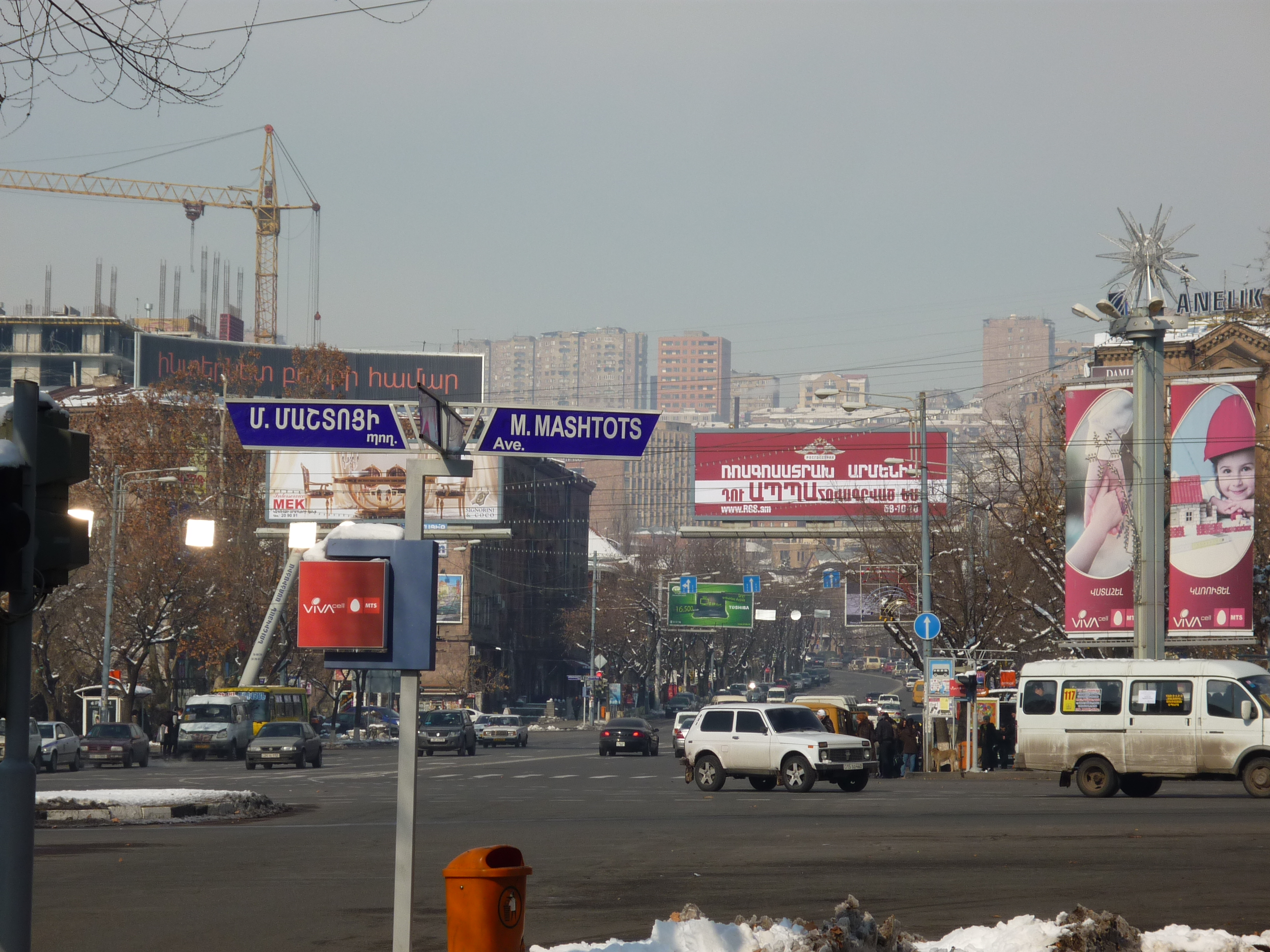 Mashtots Avenue, Yerevan